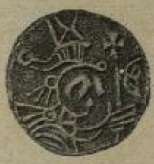 Coin of Olaf III of Norway, cited from Myntherrer, Olav Kyrre. University of Oslo.